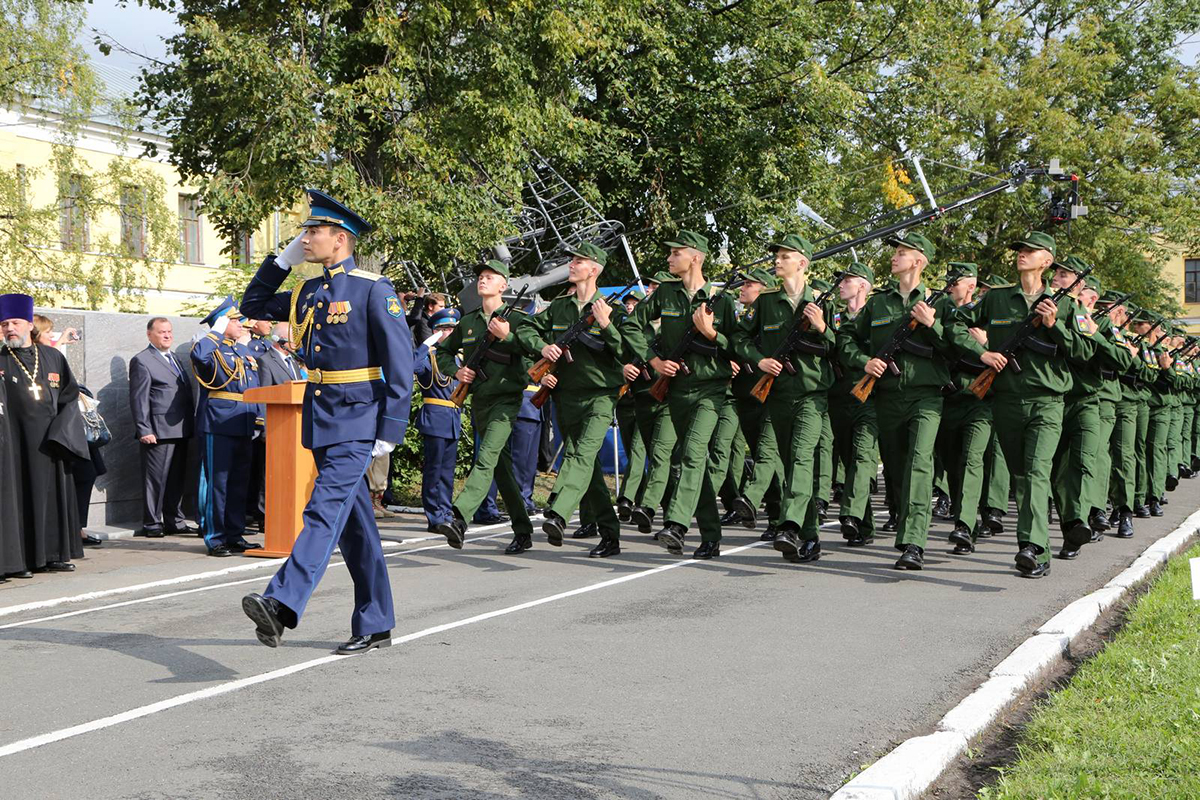 Military oath in the Mozhaisky Military Space Academy.